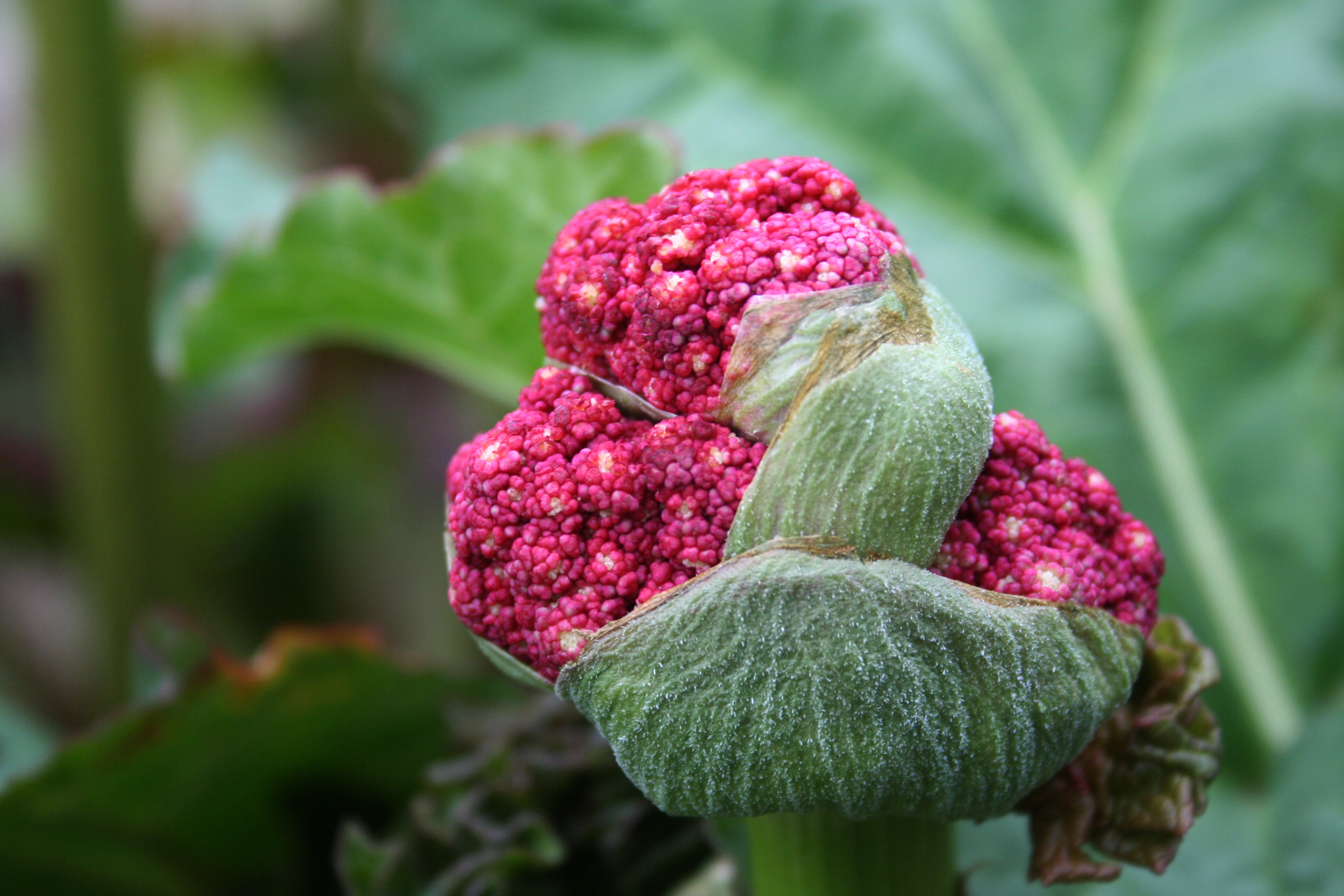 A flower of Rheum australe. Oulu University Botanical Gardens, Finland.